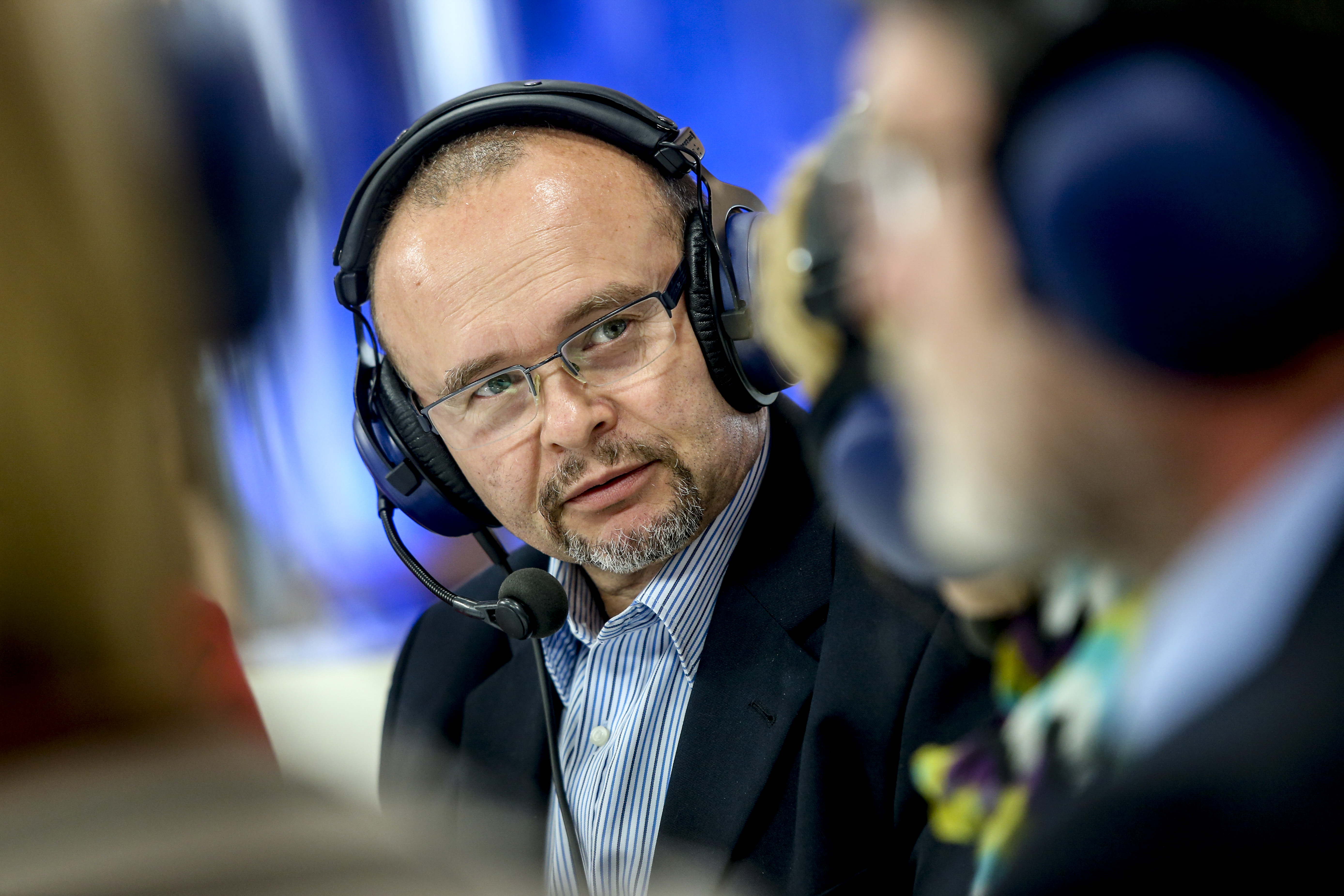 The quick and the dead. Europe’s migration crisis – the Euranet Plus radio network, in partnership with HRT Radio (Croatia), hosted a live debate from the European Parliament discussing migrations policy. What can the European Union really do? Euranet Plus and HRT Croatia debated the crisis in a bilingual debate moderated by journalist Barbara Peranić of HRT Radio (in Croatian) and Brian Maguire of the Euranet Plus News Agency in Brussels (in English). The debate also featured students of the Euranet Plus campus radio network from Croatia (Radio Student) and Spain (Universidade de Vigo). Get all the details about the guests, photos and video recording at